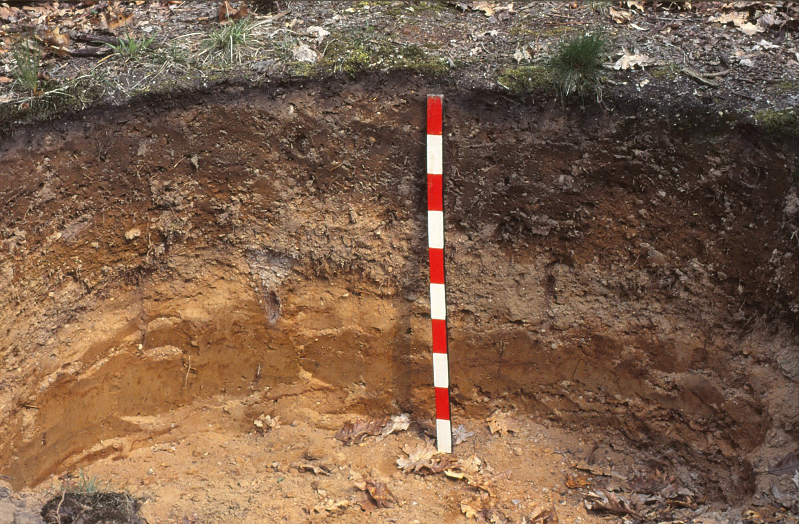 Luvisol on marlstone. Rhine Valley near Rastatt, Germany